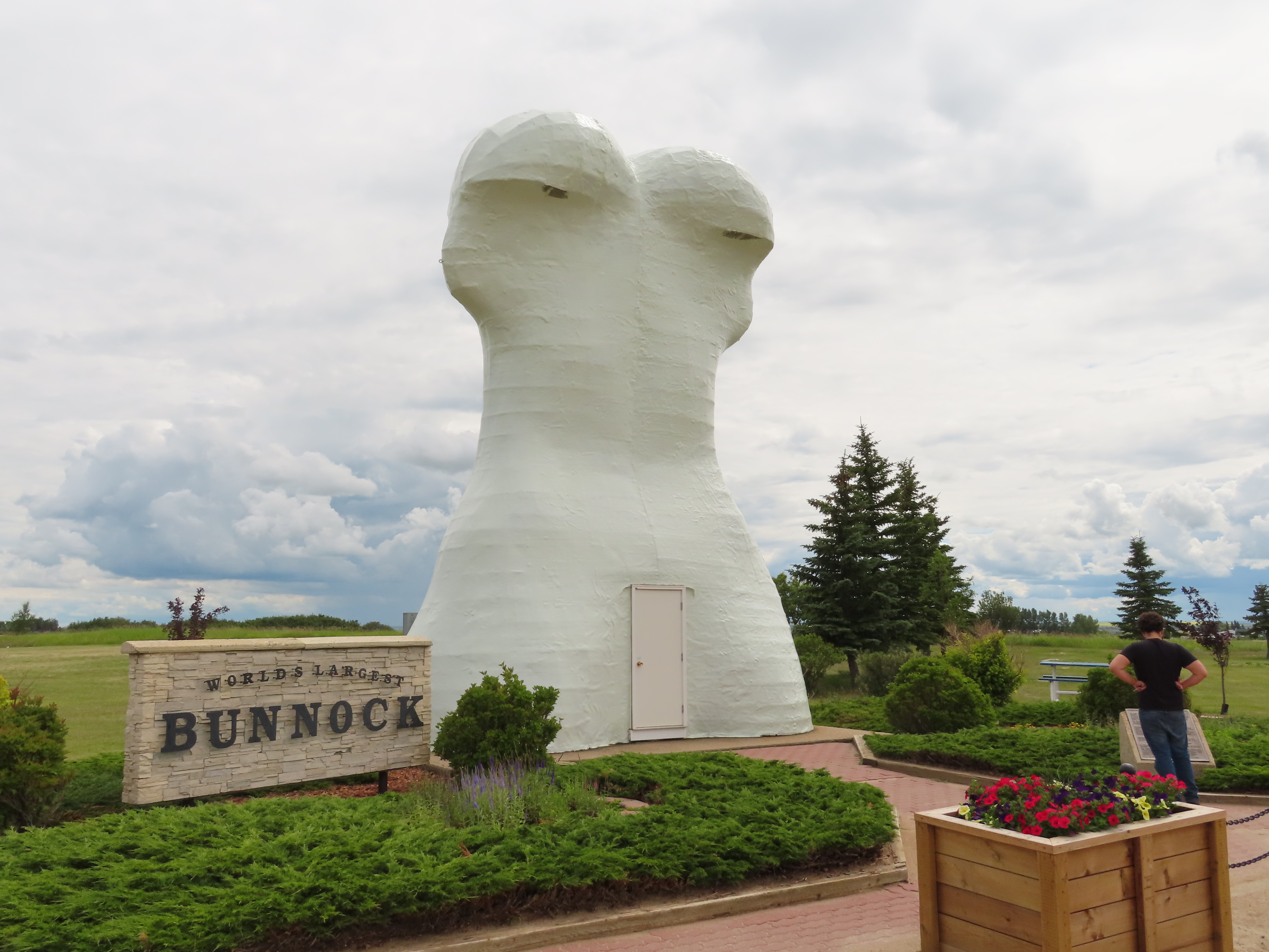 World's Largest Bunnock statue in Macklin, Saskatchewan. This giant bone would theoretically be used for playing a throwing game imported by Russian German immigrants.